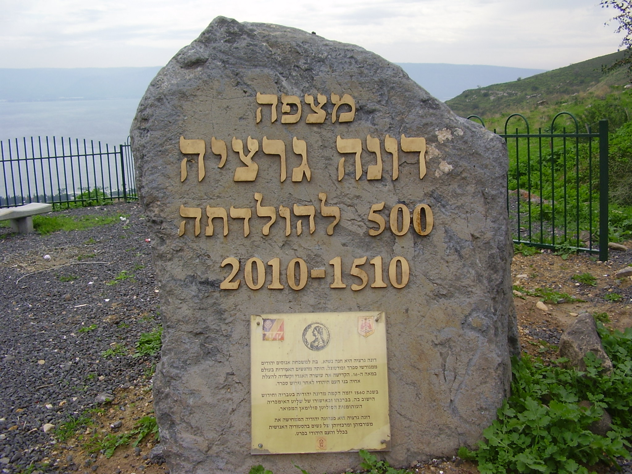 dona gracia lookout, tiberias